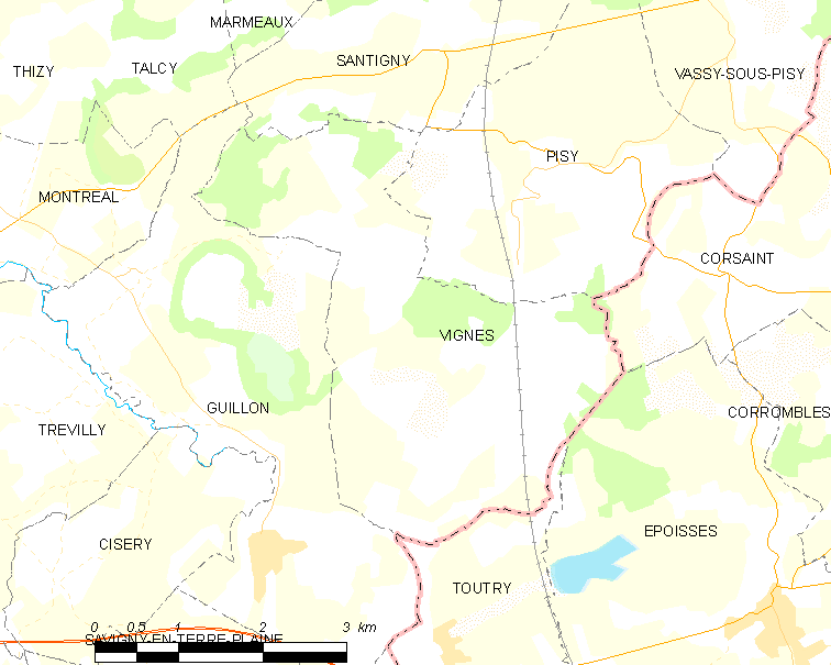 Map of French municipality Vignes